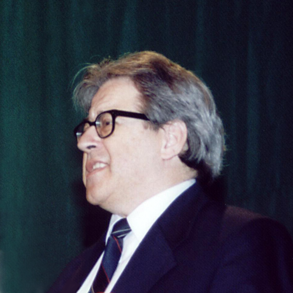 Franko Luin at the 2003 World Congress of Esperanto in Gothenburg, Sweden.